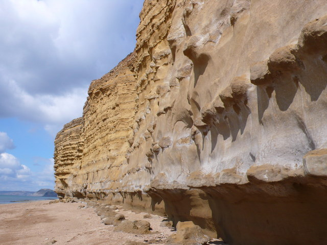 Burton Bradstock Cliffs, Dorset The cliffs here are a splendid example of Jurassic marine shoal sands. Known as the Bridport Sands it is over 40 metres thick. This formation is an important oil reservoir rock underground at the Dorset Oilfield further along the coast near Kimmeridge and these are the best exposures at the surface.